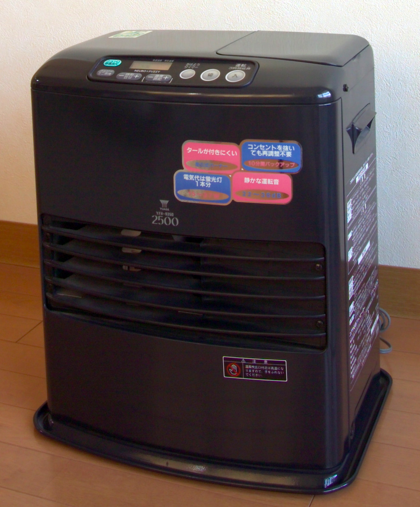 This photo shows a Japanese space heater that burns kerosene. It contains an electric fan and computer controls. The manufacturer is Yuasa.